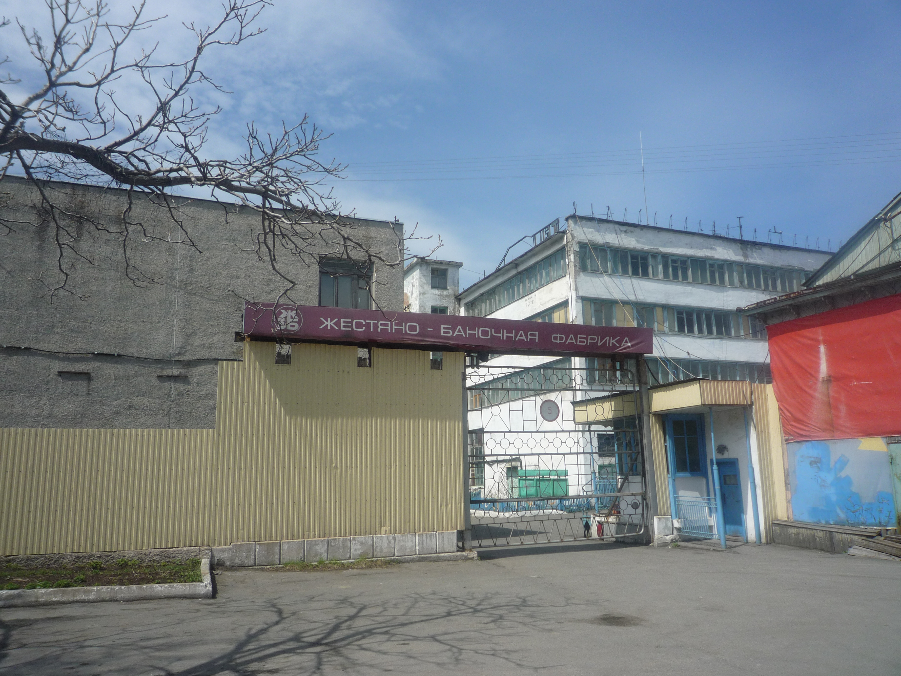 Холмская ЖБФ